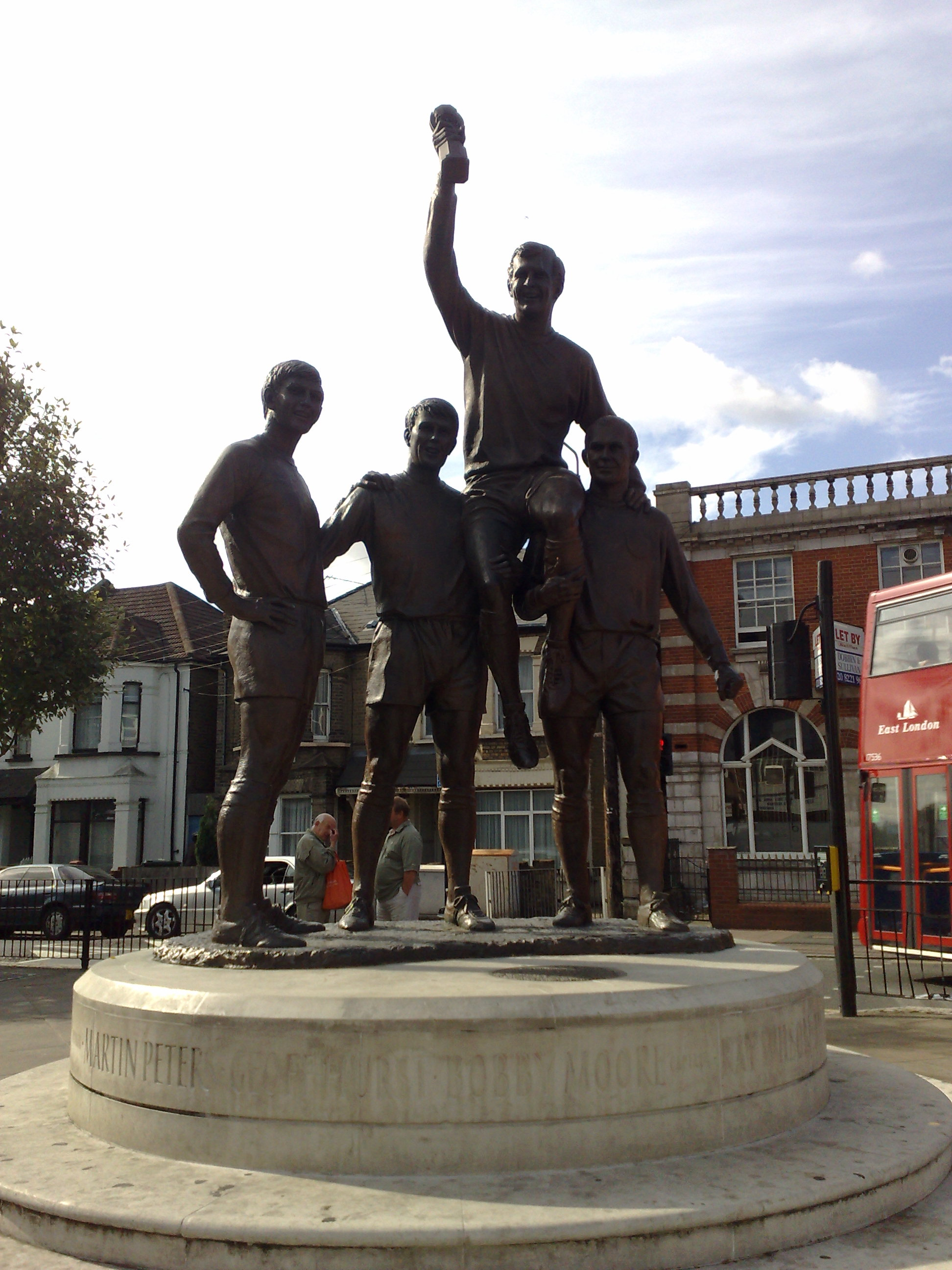 WEST HAM